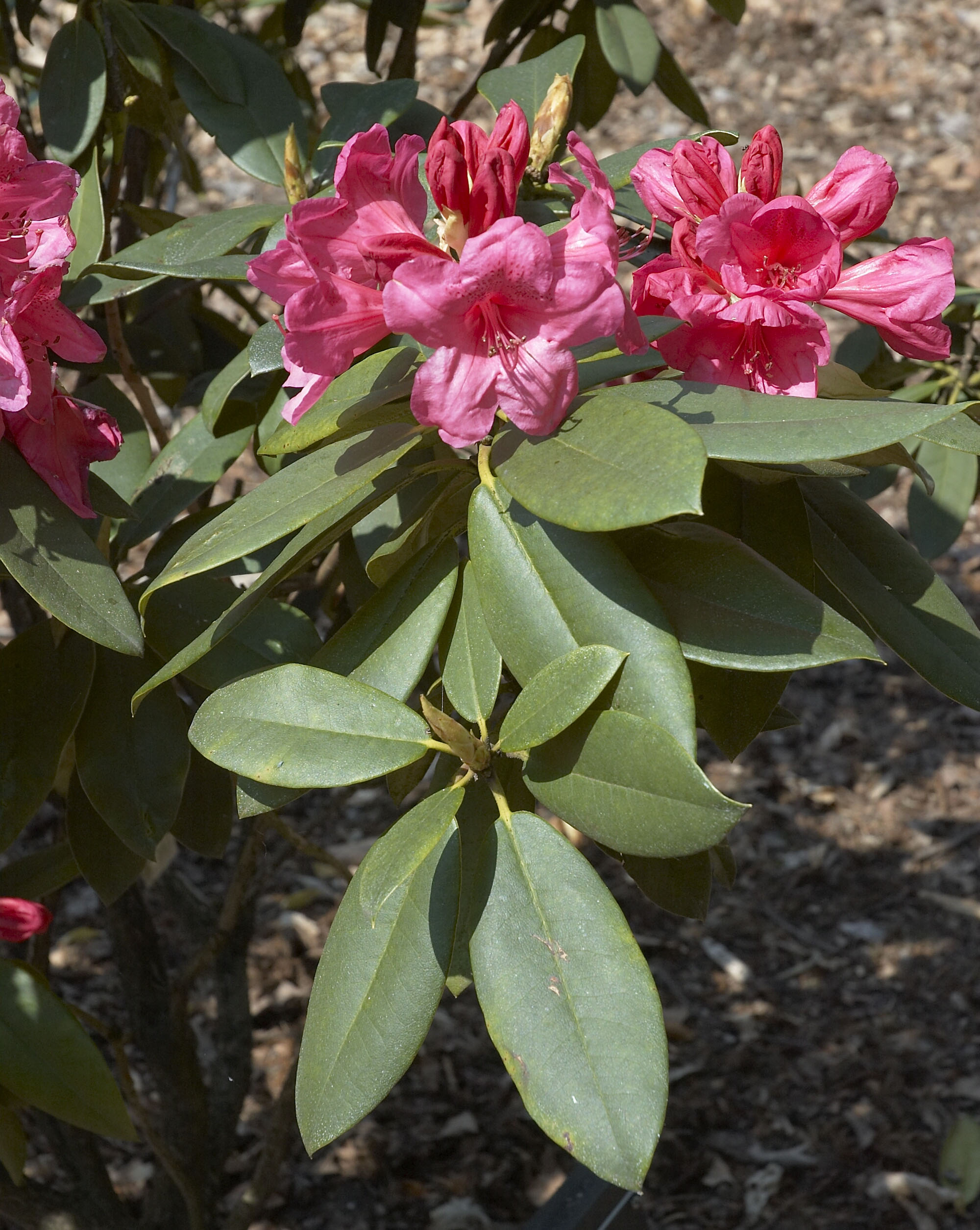 Rhododendron 'Anna Rose Whitney' in the arboretum Belmonte, Generaal Foulkesweg 94 of the university Wageningen, Netherlands